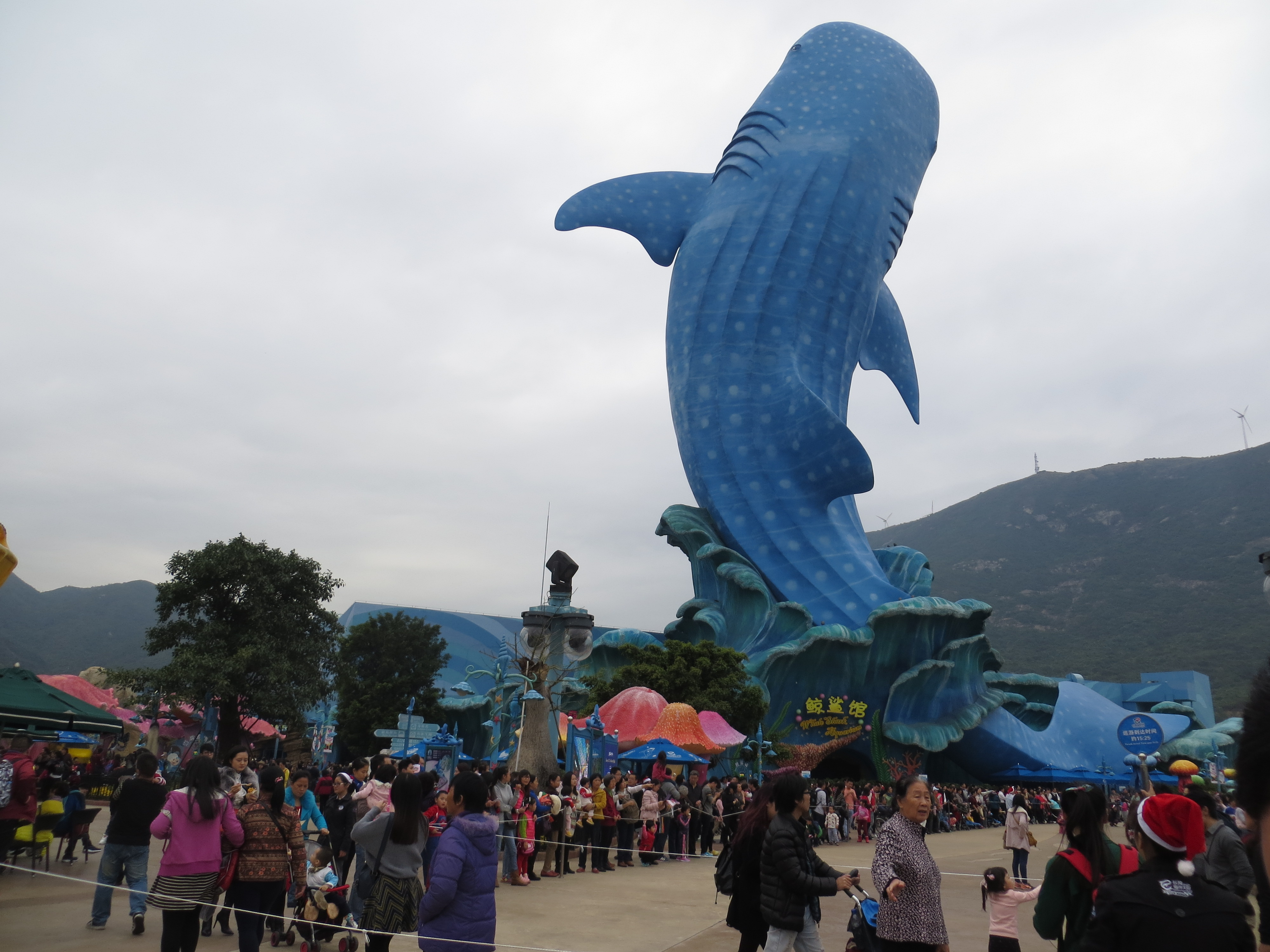 Whale Shark Aquarium at Chimelong Ocean Kingdom 中文（香港）: 長隆海洋王國鯨鯊館